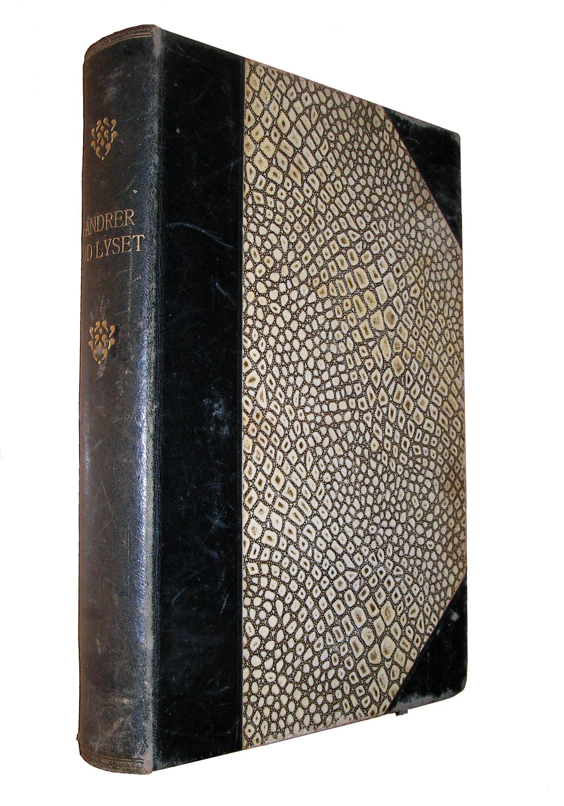 A picture of Johanne Agerskov's own copy of the book "Vandrer mod Lyset!" - in english, "Toward the Light!". I took this picture in the home of the still remaining members of the Agerskov family.